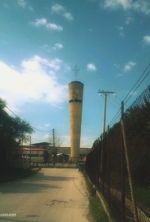 The tower of the aqueduct at the old "Maragopoulos" plant in the homonymous district in Paralia Patras, Achaia, Greece. The foto was taken from Bouboulina Str., behind Patra's wastewater treatment plant.